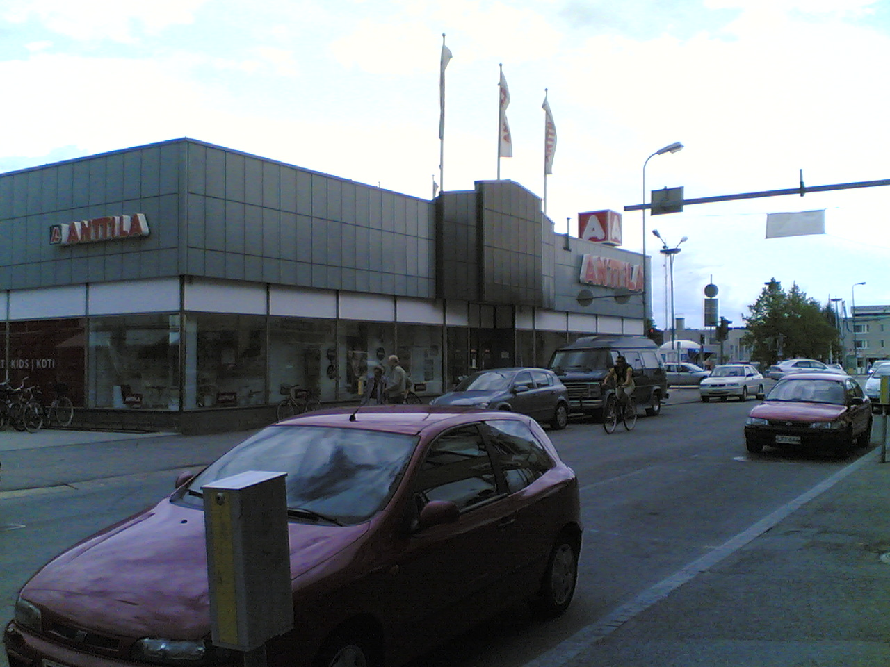 Anttila department store in Kajaani, Finland